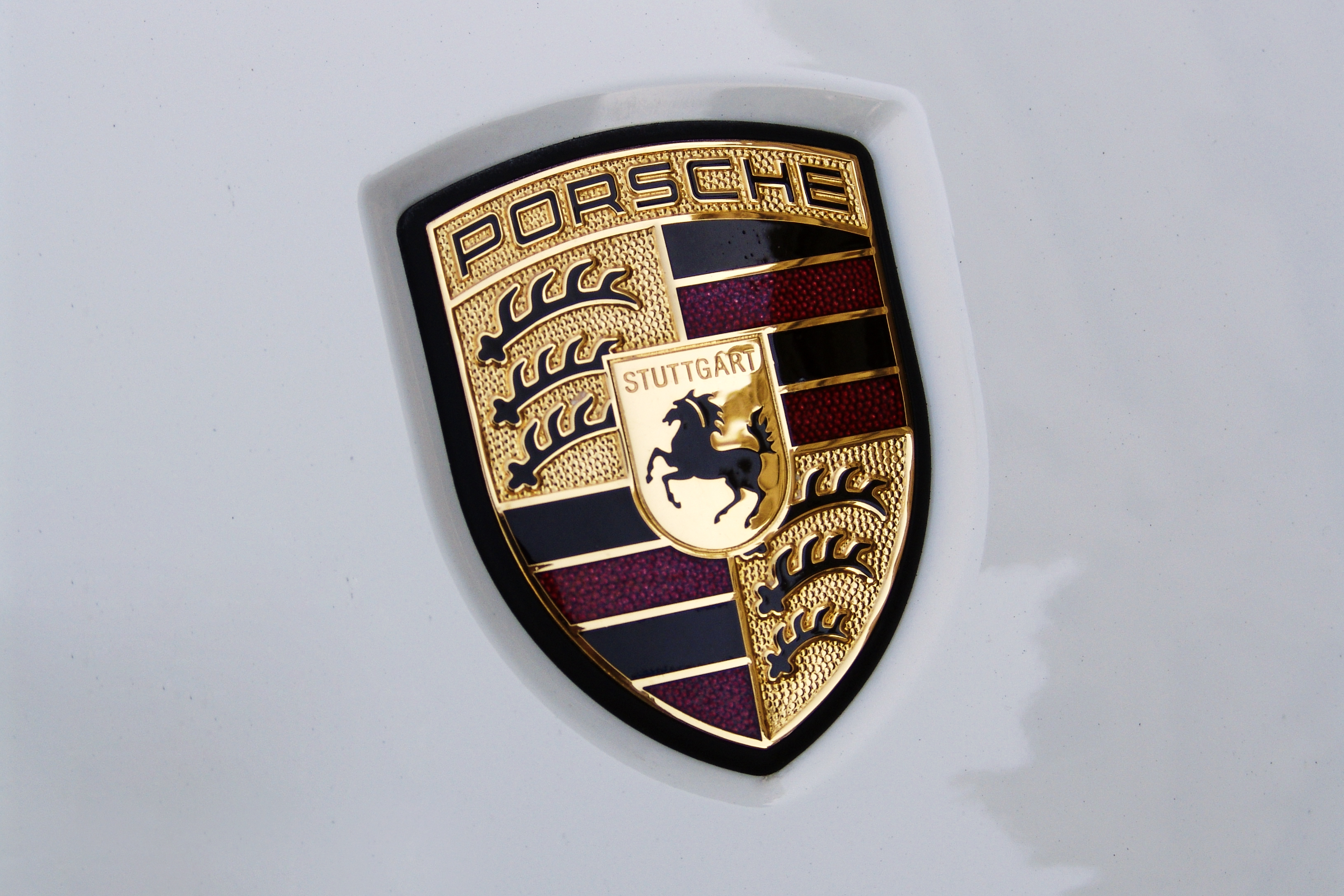 the Porsche symbol